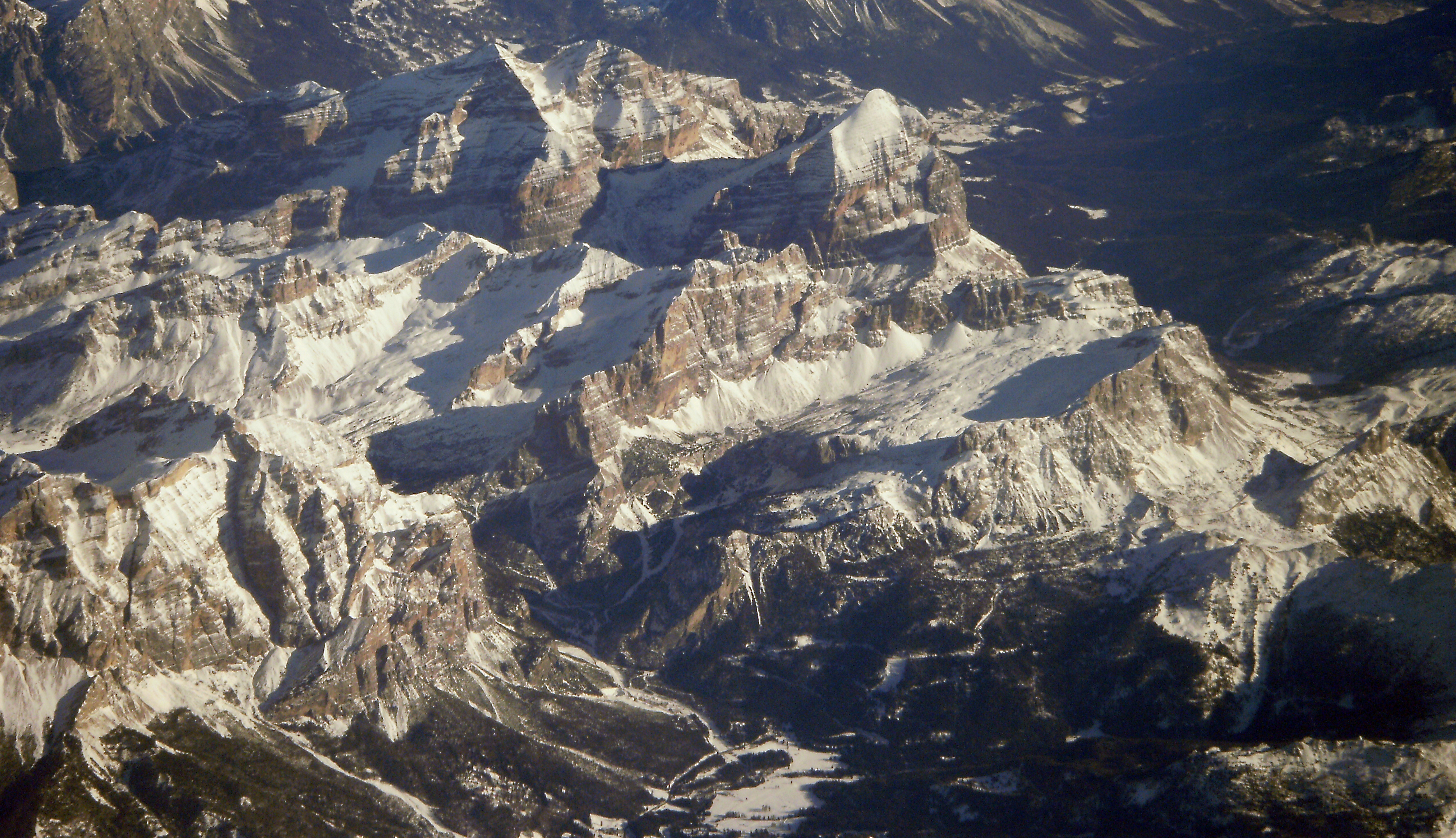 Tofana and Fanis Group